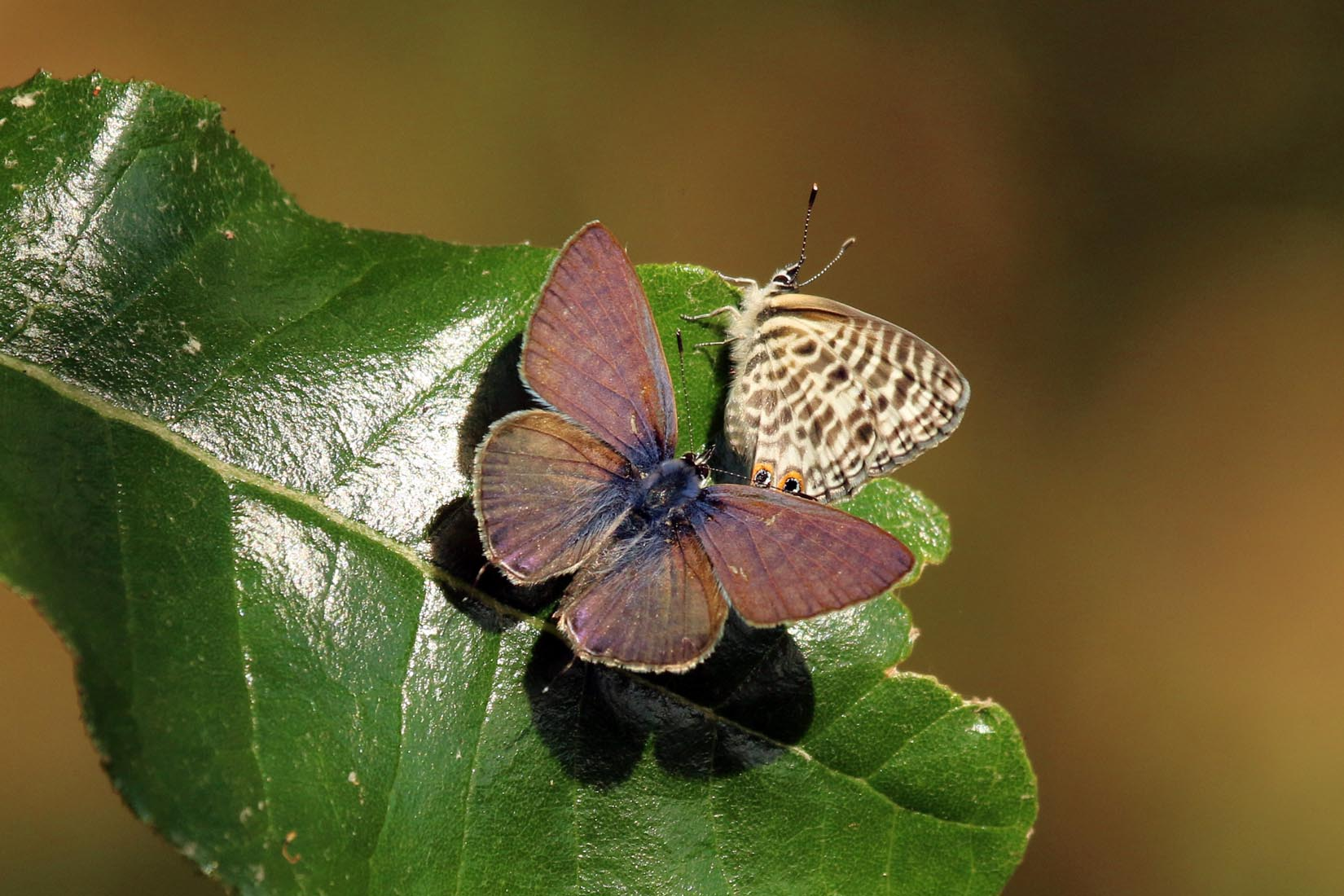 Common zebra blue butterflies (Leptotes pirithous pirithous), Lake Sibaya, KwaZulu Natal, South Africa